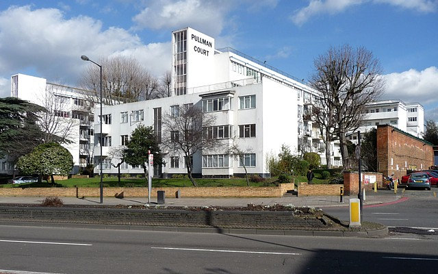 Pullman Court, Streatham Hill Looking crystalline white against the blue sky, these flats were designed by Frederick Gibberd in 1935, and were one of the first such developments in the International Modern style in Britain. The flats are arranged so that most do not face the busy main road, they were equipped with many modern conveniences such as boilers and wirelesses, and communal facilities included a rooftop garden and open-air swimming pool. Grade II* listed. This was Gibberd's first major commission, and while his career prospered (Harlow New Town, Heathrow Airport, Liverpool Metropolitan Cathedral), he never again designed in a similar style.